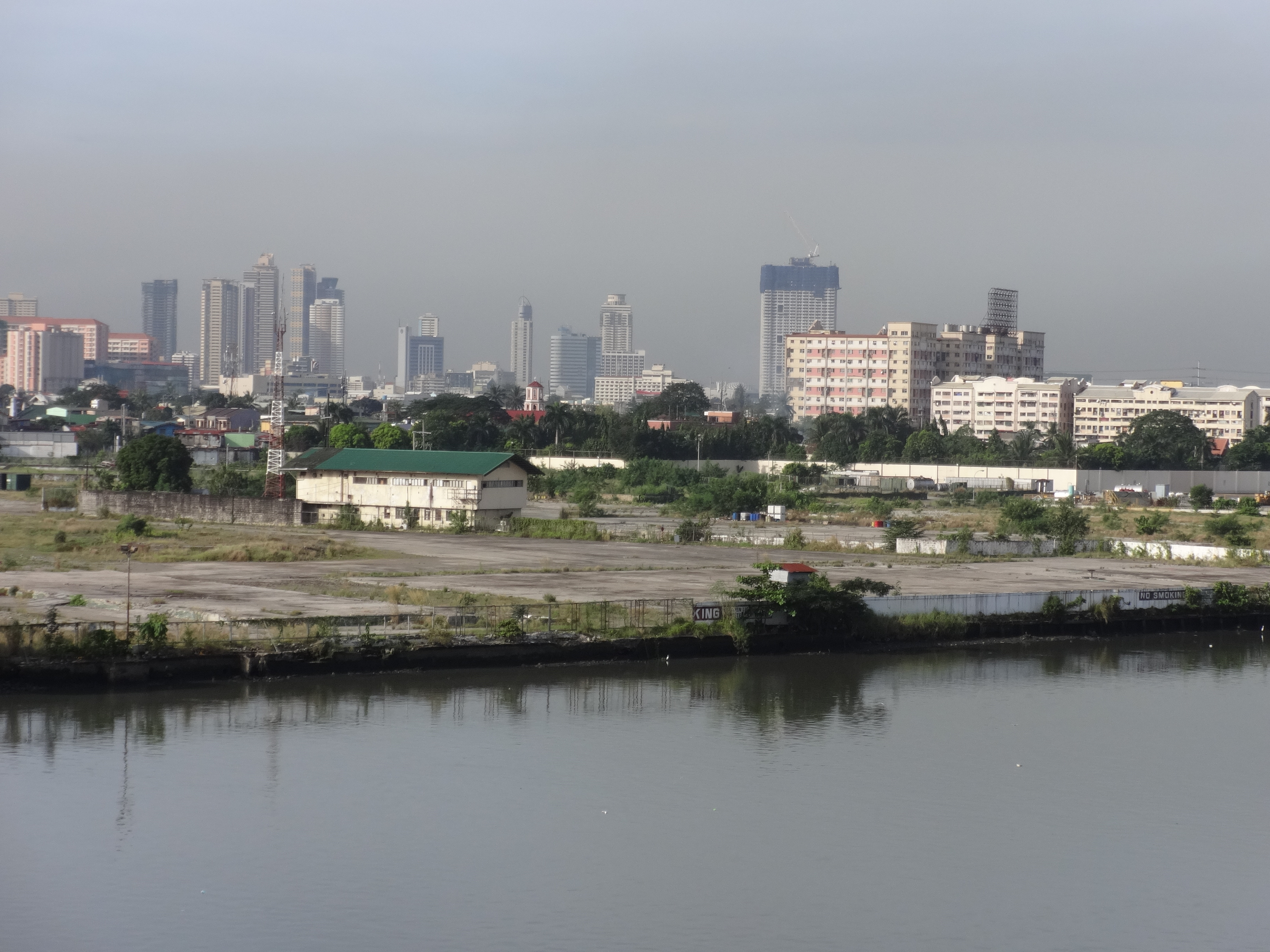 Old site of now-demolished Pandacan Oil Depot along Pasig River, Pandacan, Manila